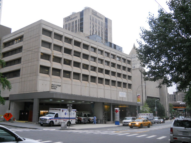 New York Downtown Hospital